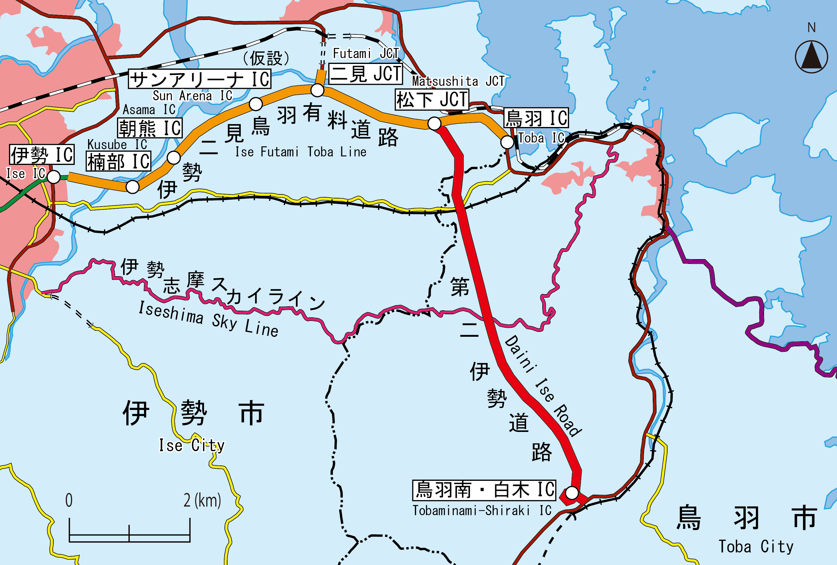 This is the map of Daini Ise Road, Ise Futami Toba Line and Iseshima Sky Line in Mie, Japan.